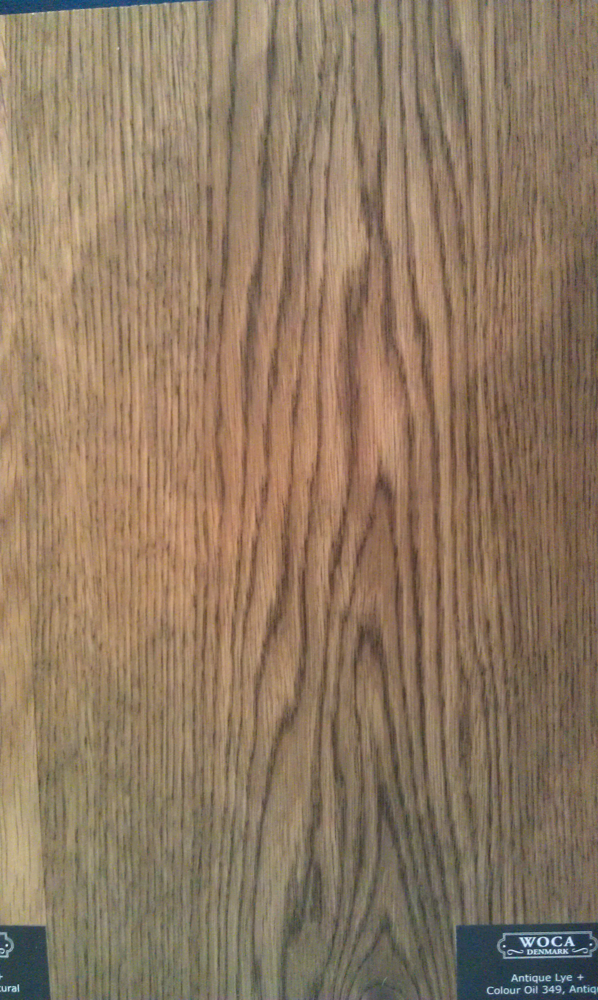 Egetræsgulv behandlet med pigmenteret alkydolie